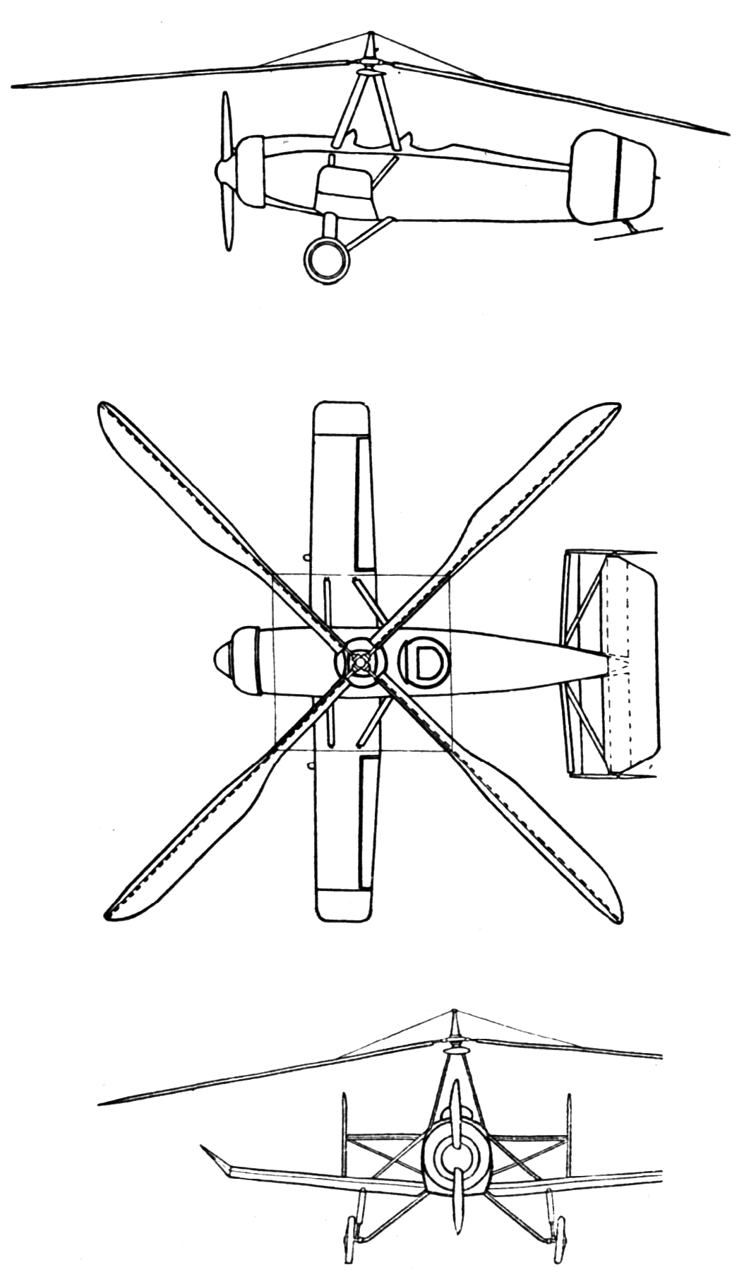 Cierva C.19 Mk.I 3-view drawing from L'Aérophile November,1929